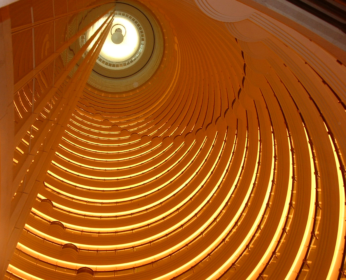 Bottom-up view of the 33-story atrium in the Shanghai Grand Hyatt inside Jin Mao Building.